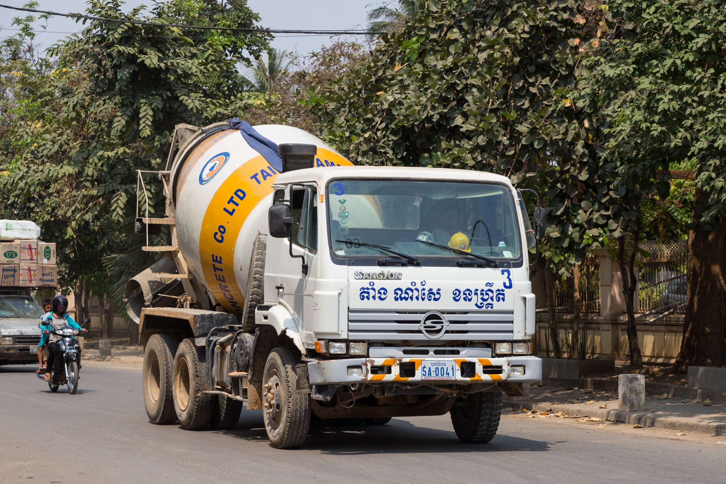 SsangYong cement mixer truck in Battambang, Cambodia